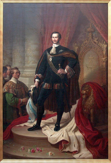 Maximilian II of Bavaria (1811-1864)